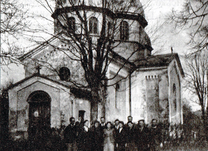 Greek Catholic Church in Hłudno (ukr. Hlidno) built in 1899